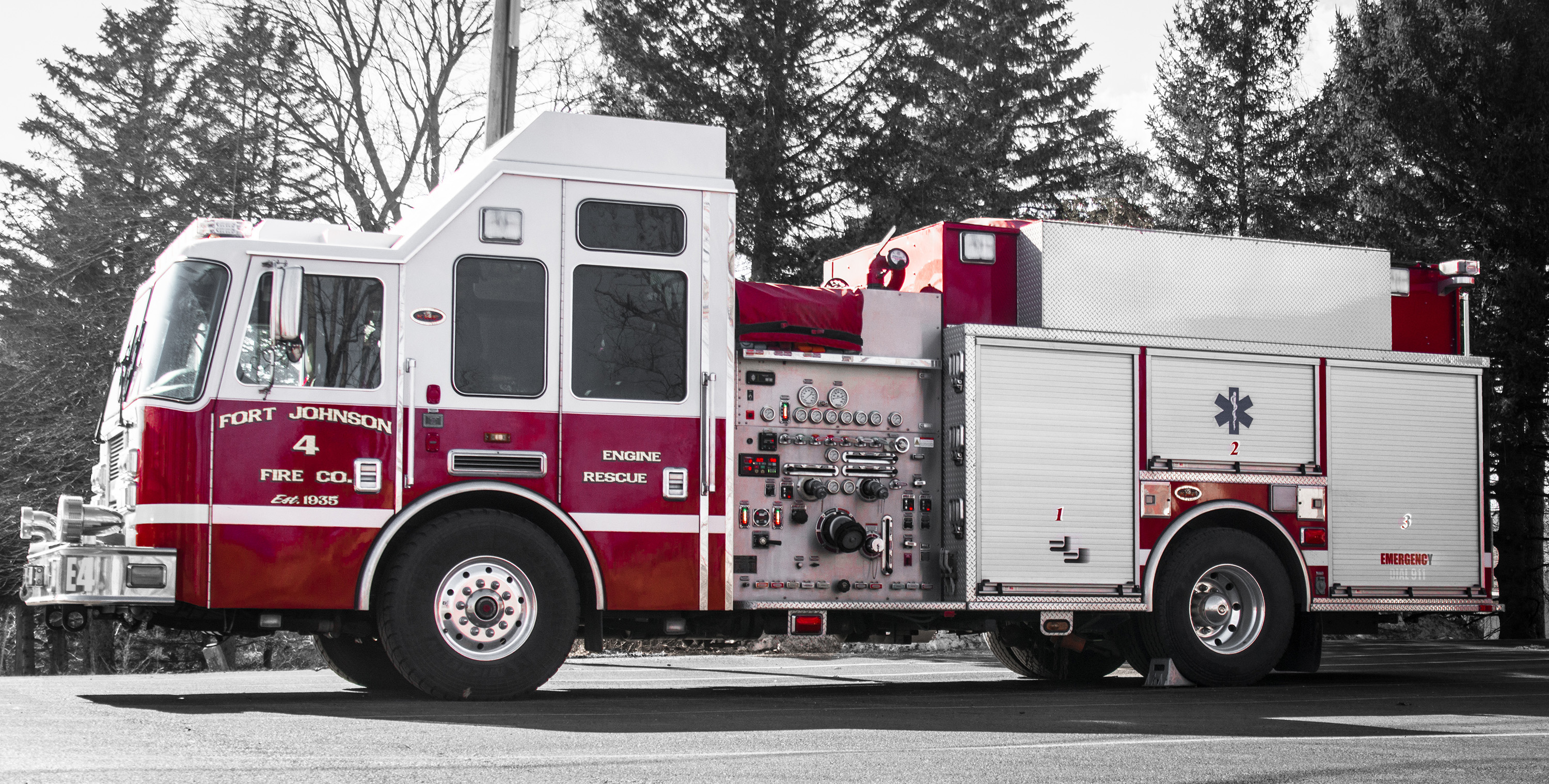 An engine for the Fort Johnson Fire Company.